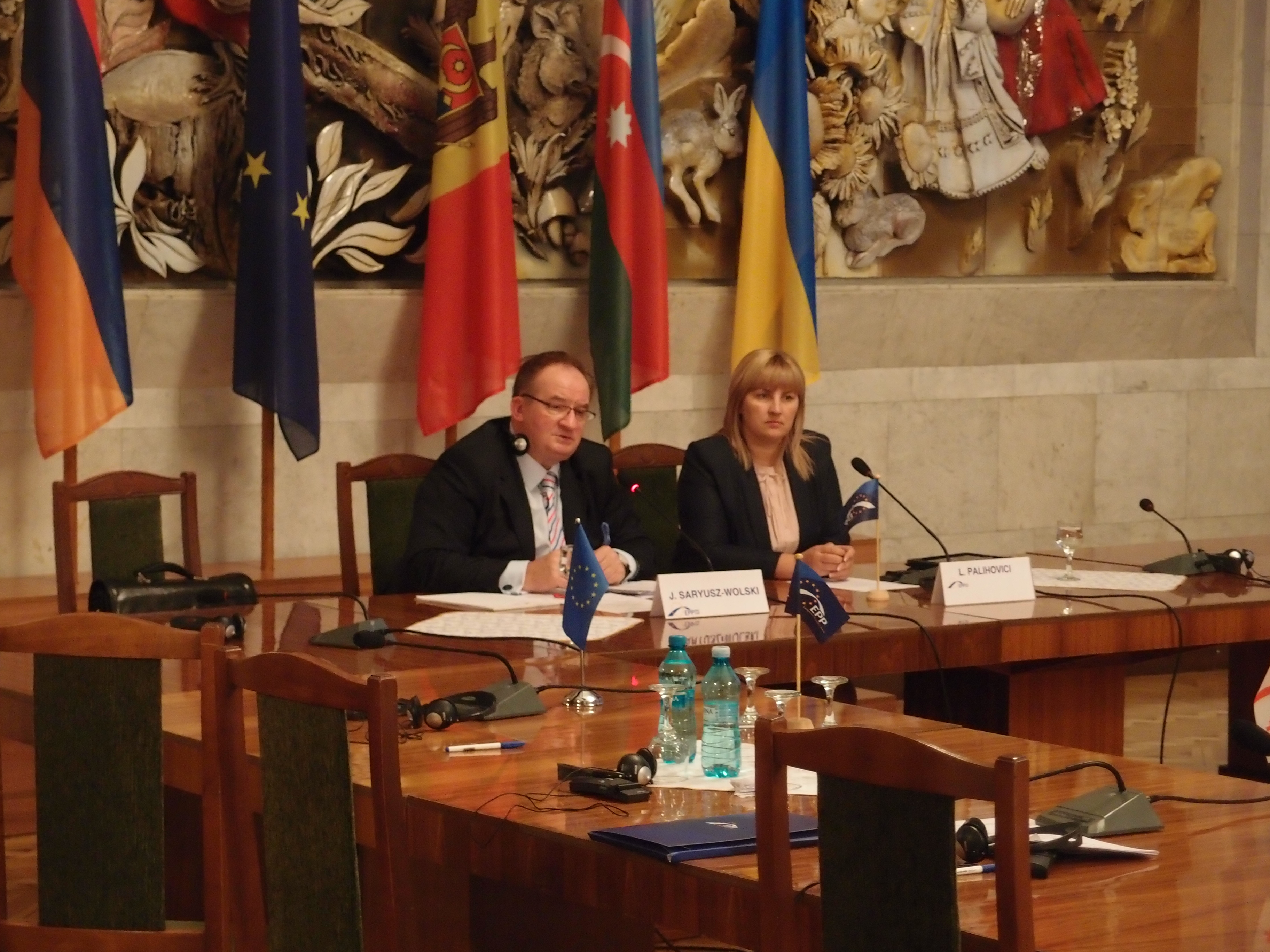 EPP EuroNest meeting in Moldova, Oct. 2012